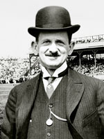 Pittsburgh Pirates owner Barney Dreyfuss at Forbes Field in Pittsburgh